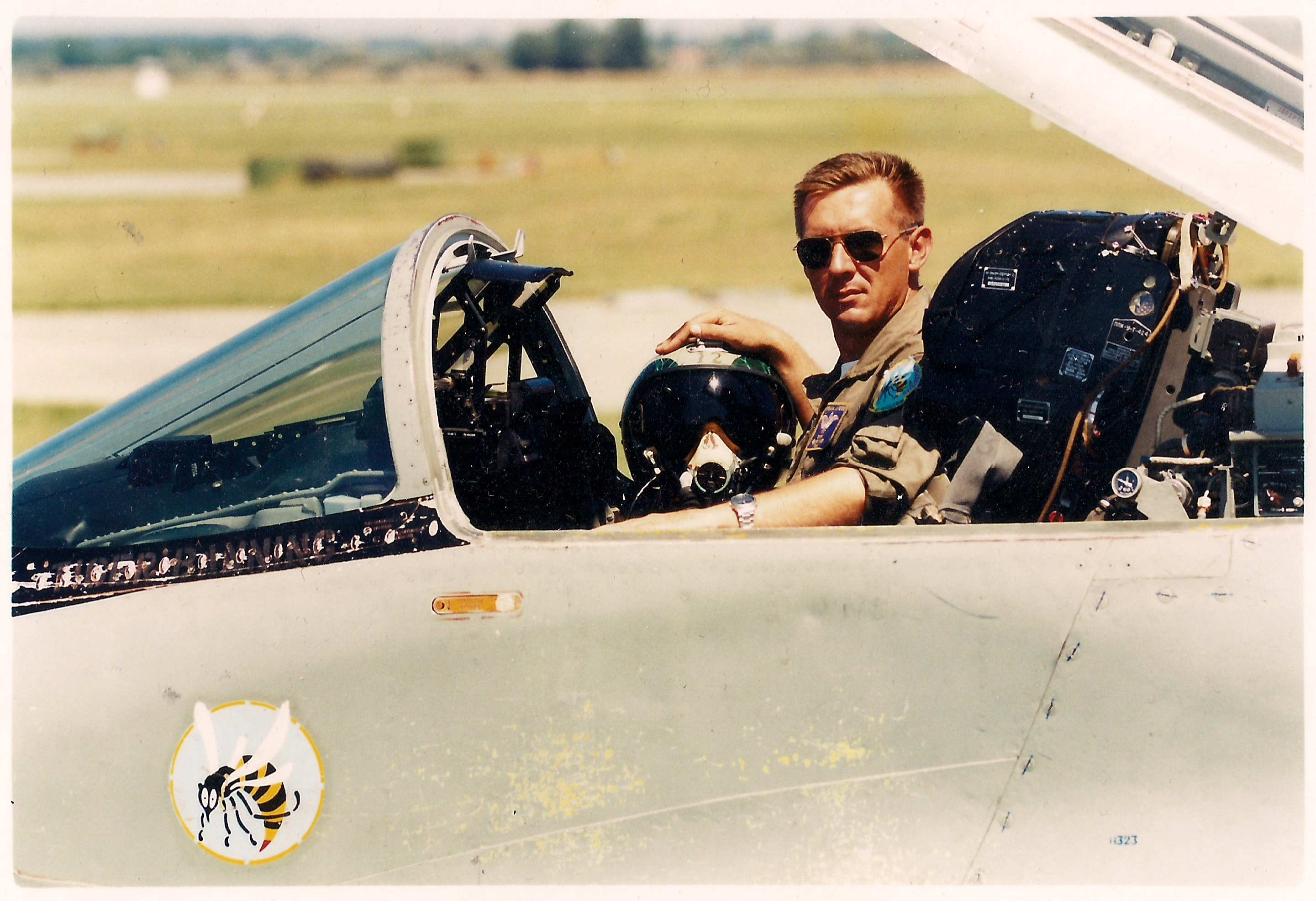 Vári Gyula in the cockpit of the MiG-29